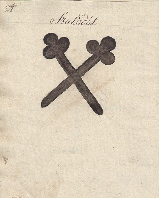 Cattle brand of Sakadat/Săcădate/Oltszakadát